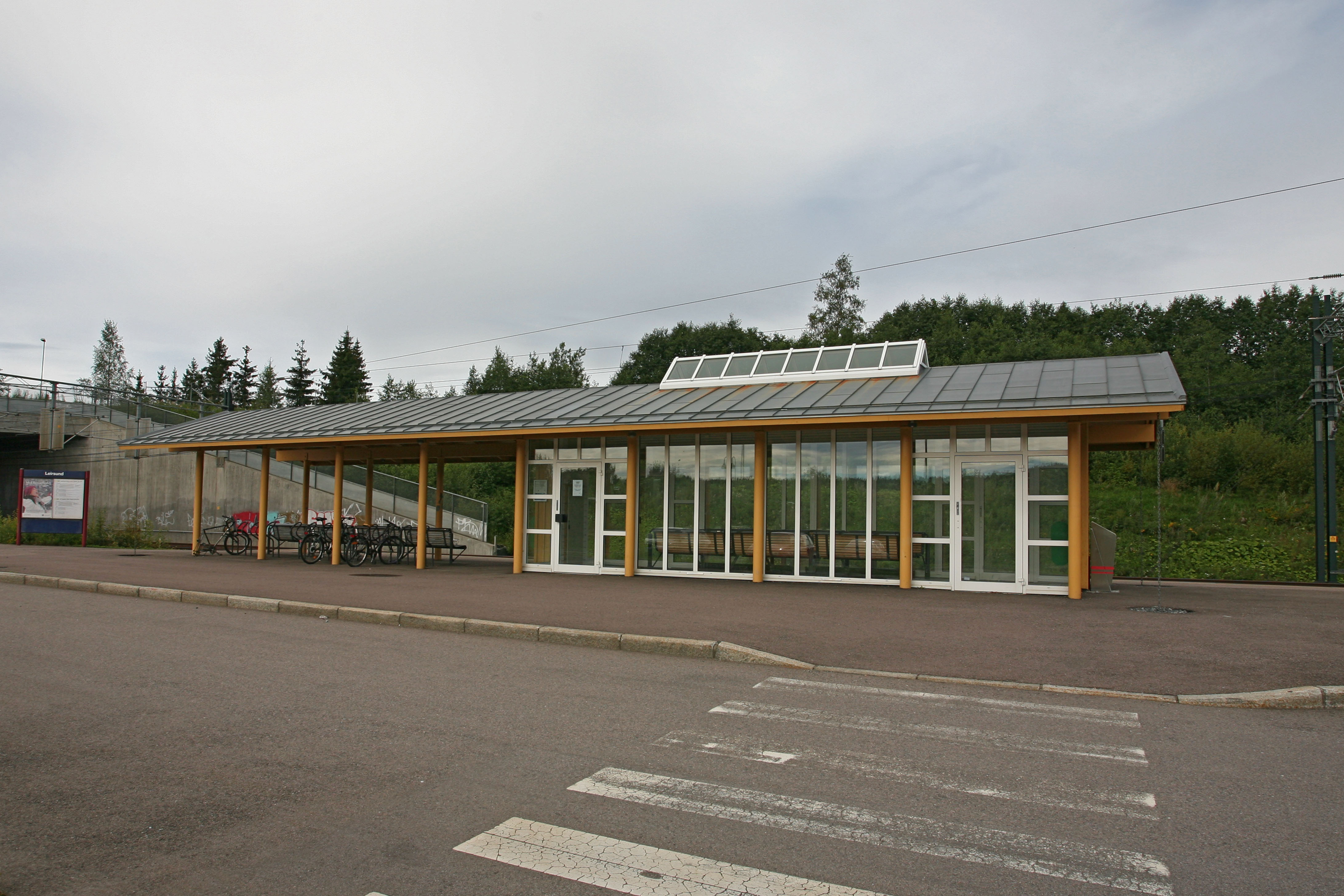 Picture of Leirsund Railway Station (Norway)